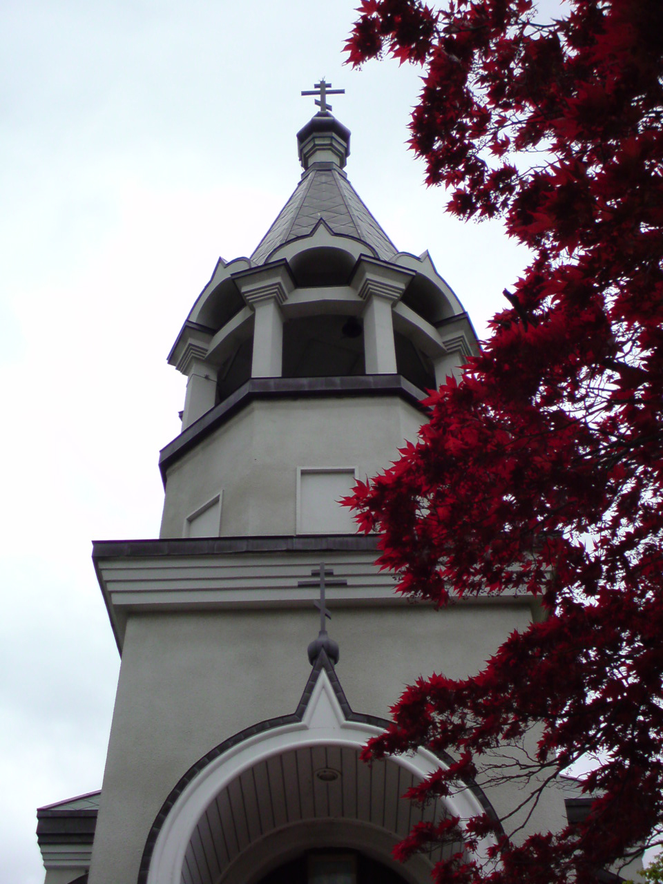 Orthodox church in Sapporo